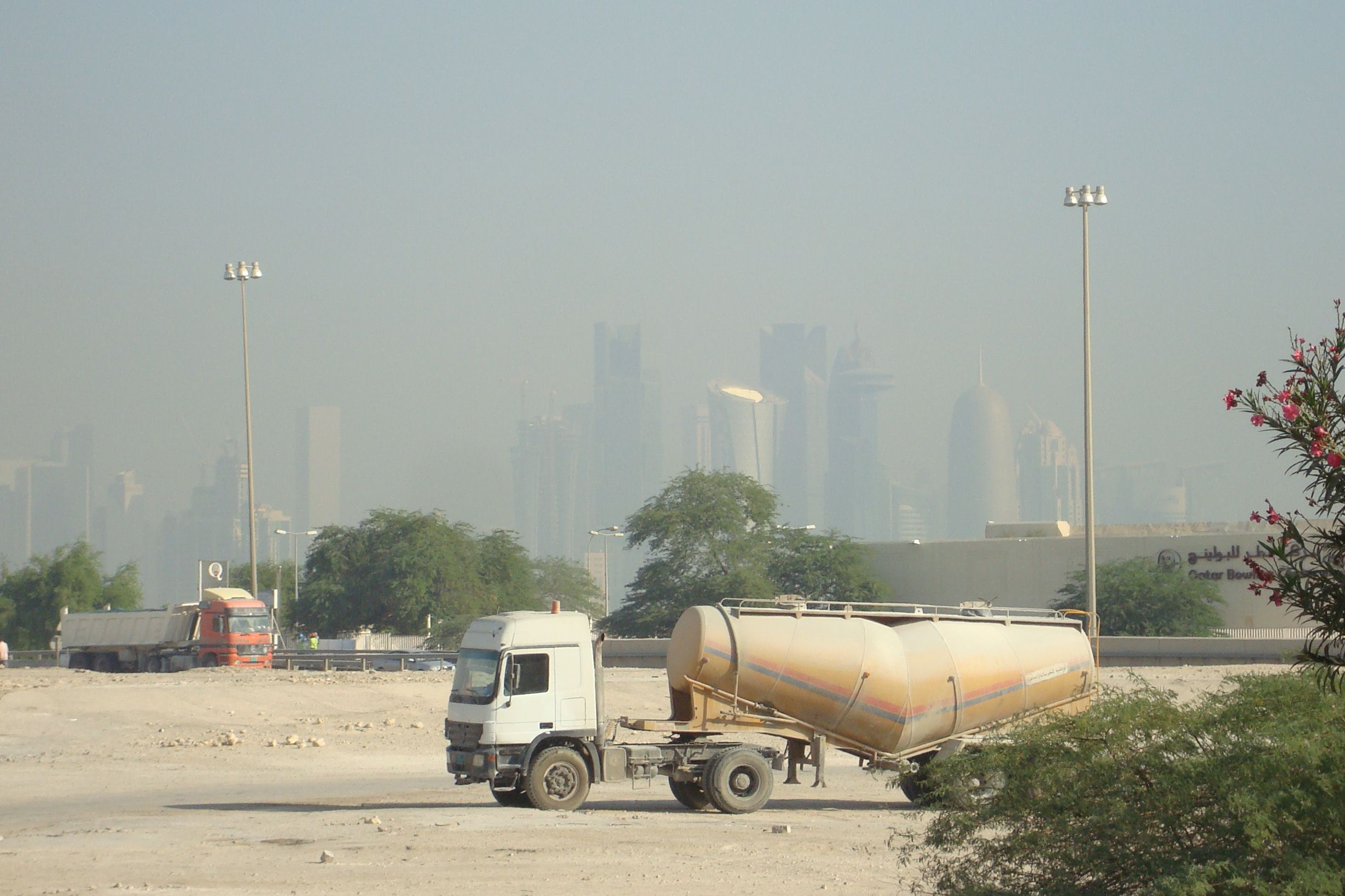 Qatar Bowling Centre in Al Bidda in Doha, Qatar.